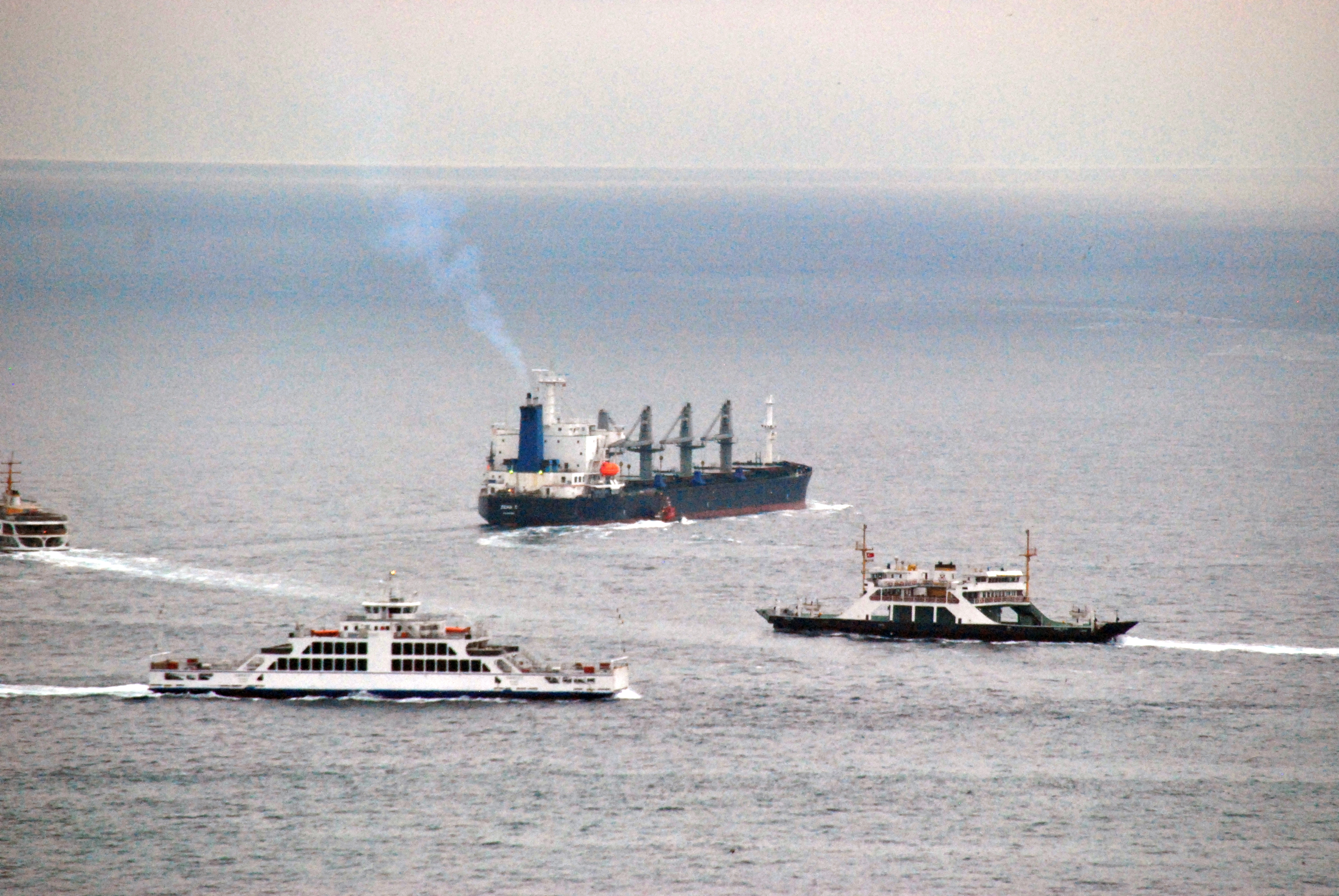 View of the Bosphorus from the Wolfgang-Müller-Wiener-Kolleg of the German Archaeological Institute in Istanbul in the Building of the German Consulate.